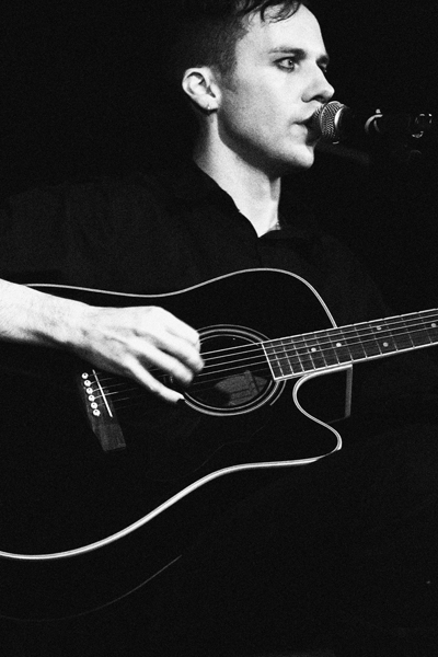 Ashton Nyte performing live in Johannesburg, South Africa